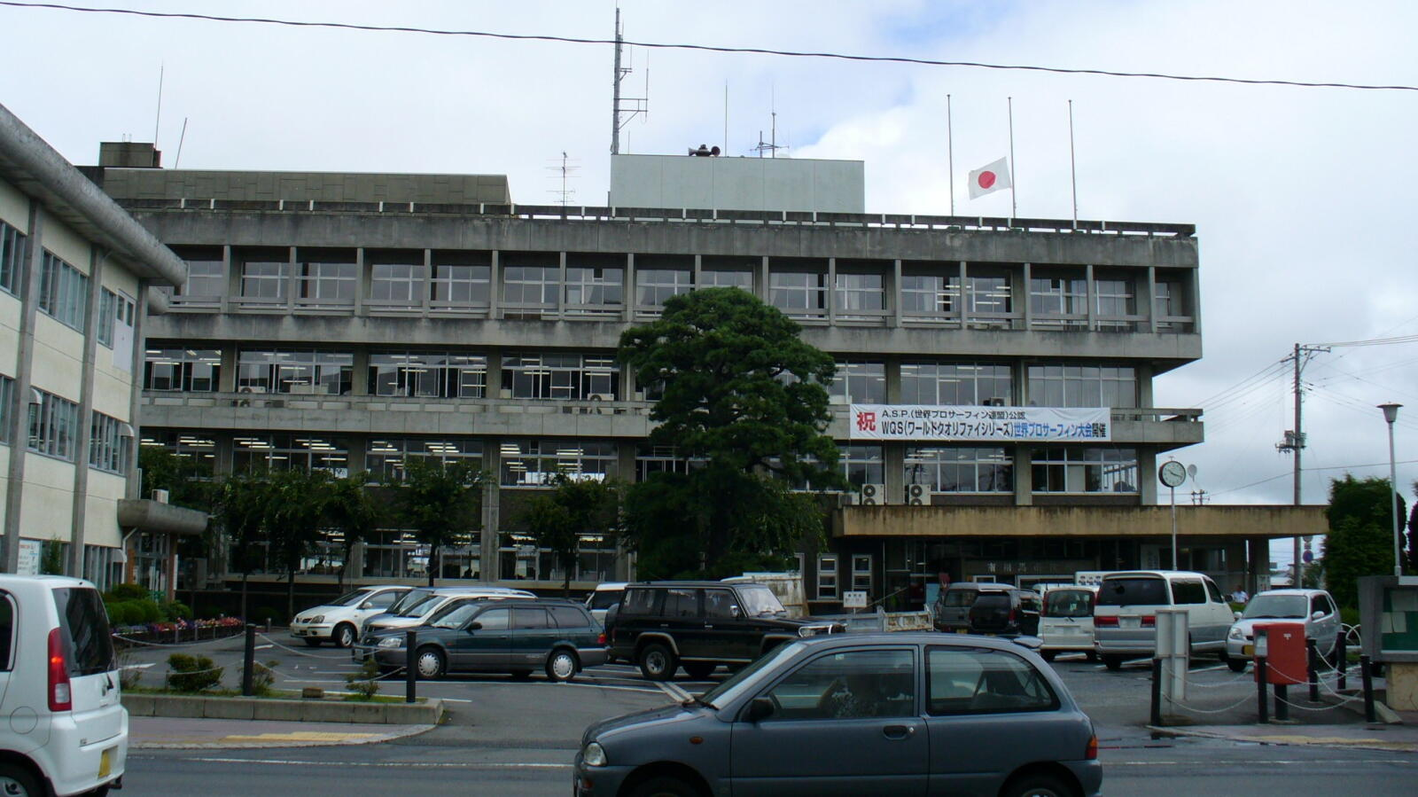 Minamisoma City Office